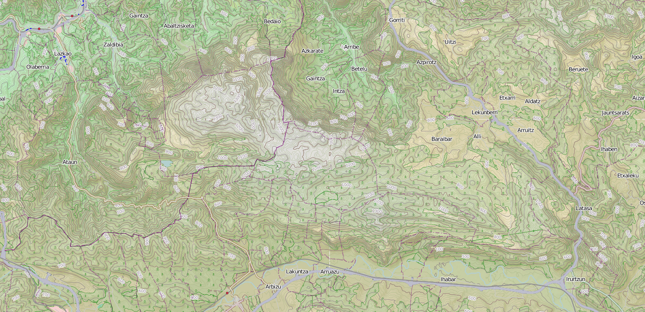 Cycle Map render of OSM on Aralar zone